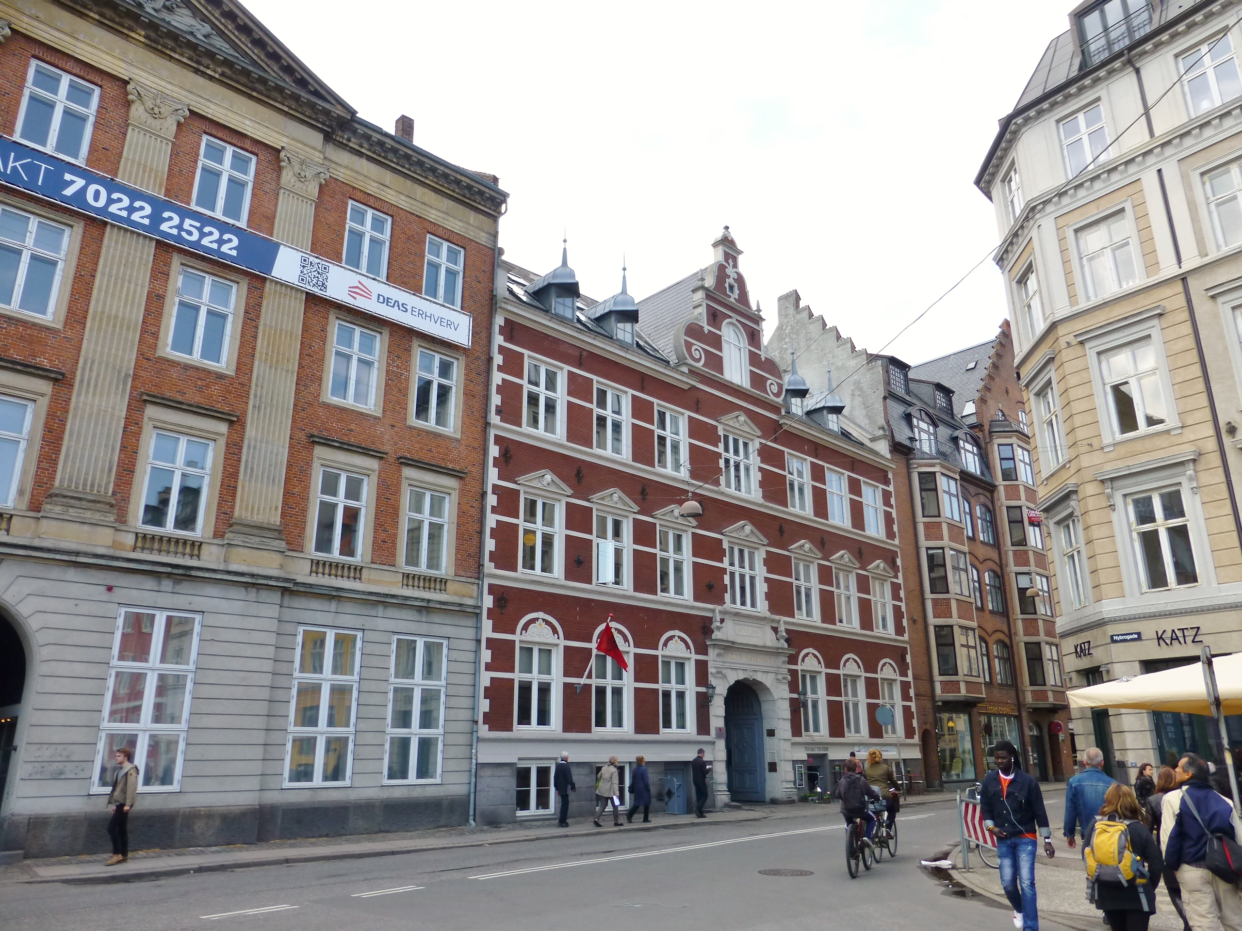 Embassy of Albania at Frederiksholms Kanal in Indre By in Copenhagen.